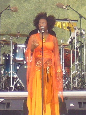 Pori Jazz 2007